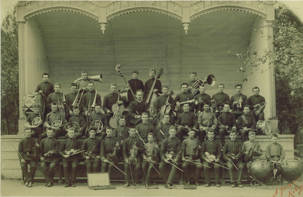 Orchestra of the Veveriai Teacher's Seminary